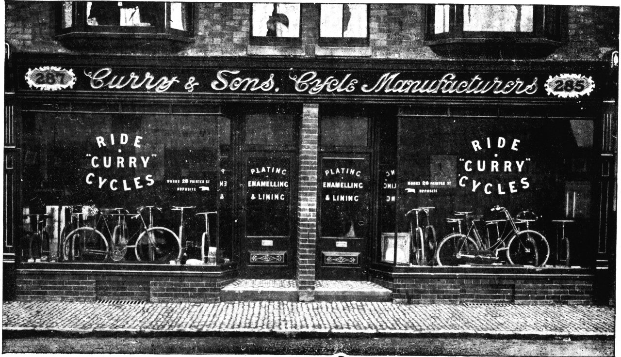 Currys Shop Front